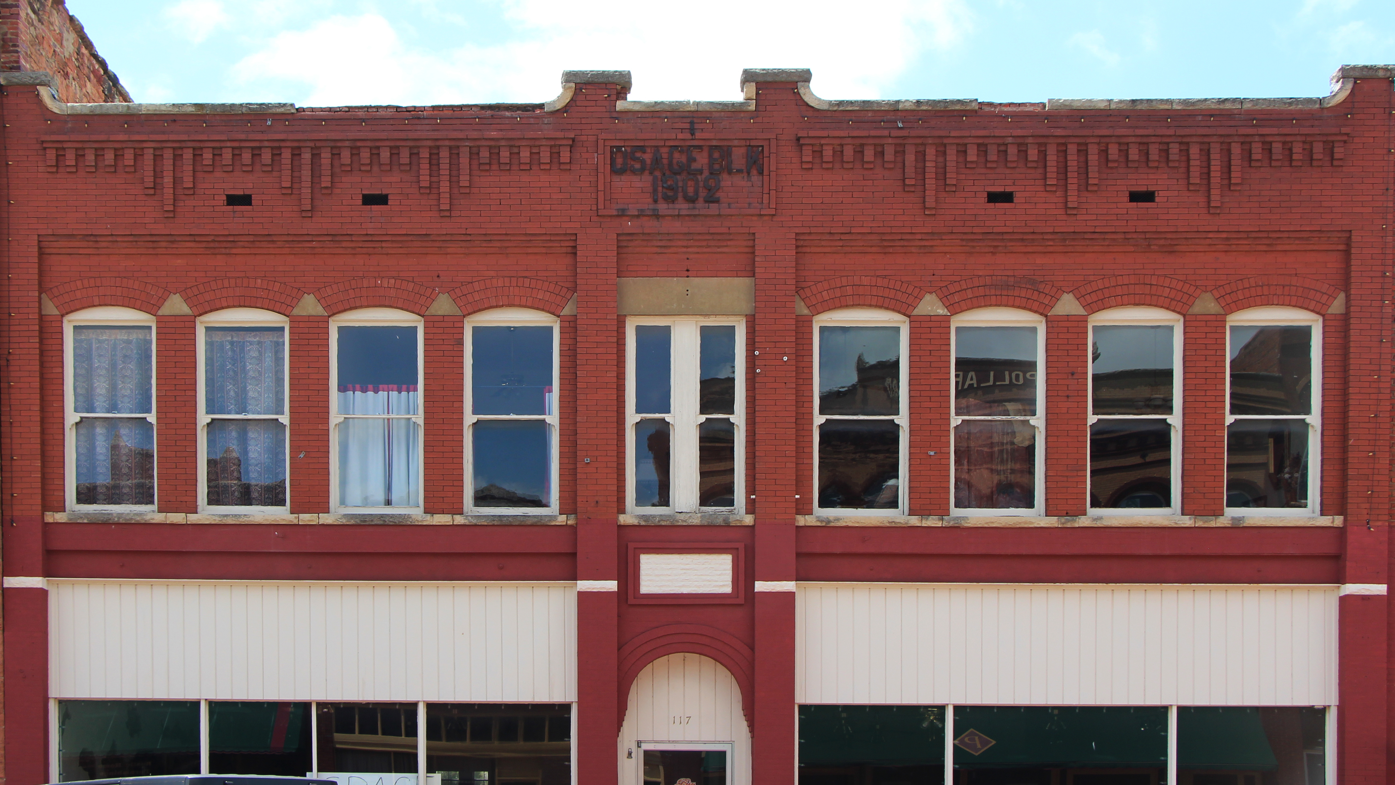 Osage Building, Guthrie, Oklahoma